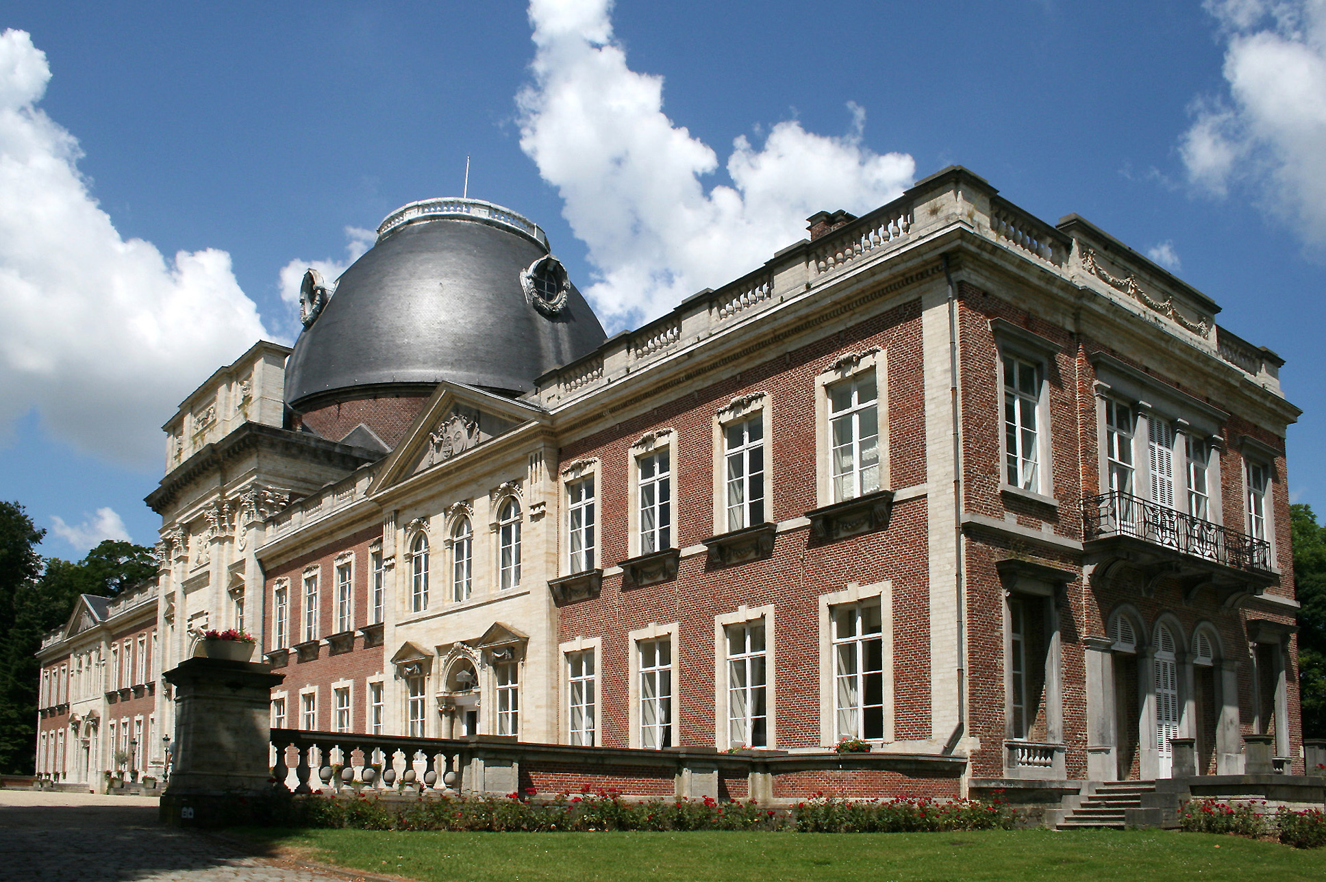 Opheylissem, the two prelacy wings and the tower church of the previous abbey (1760-1780).